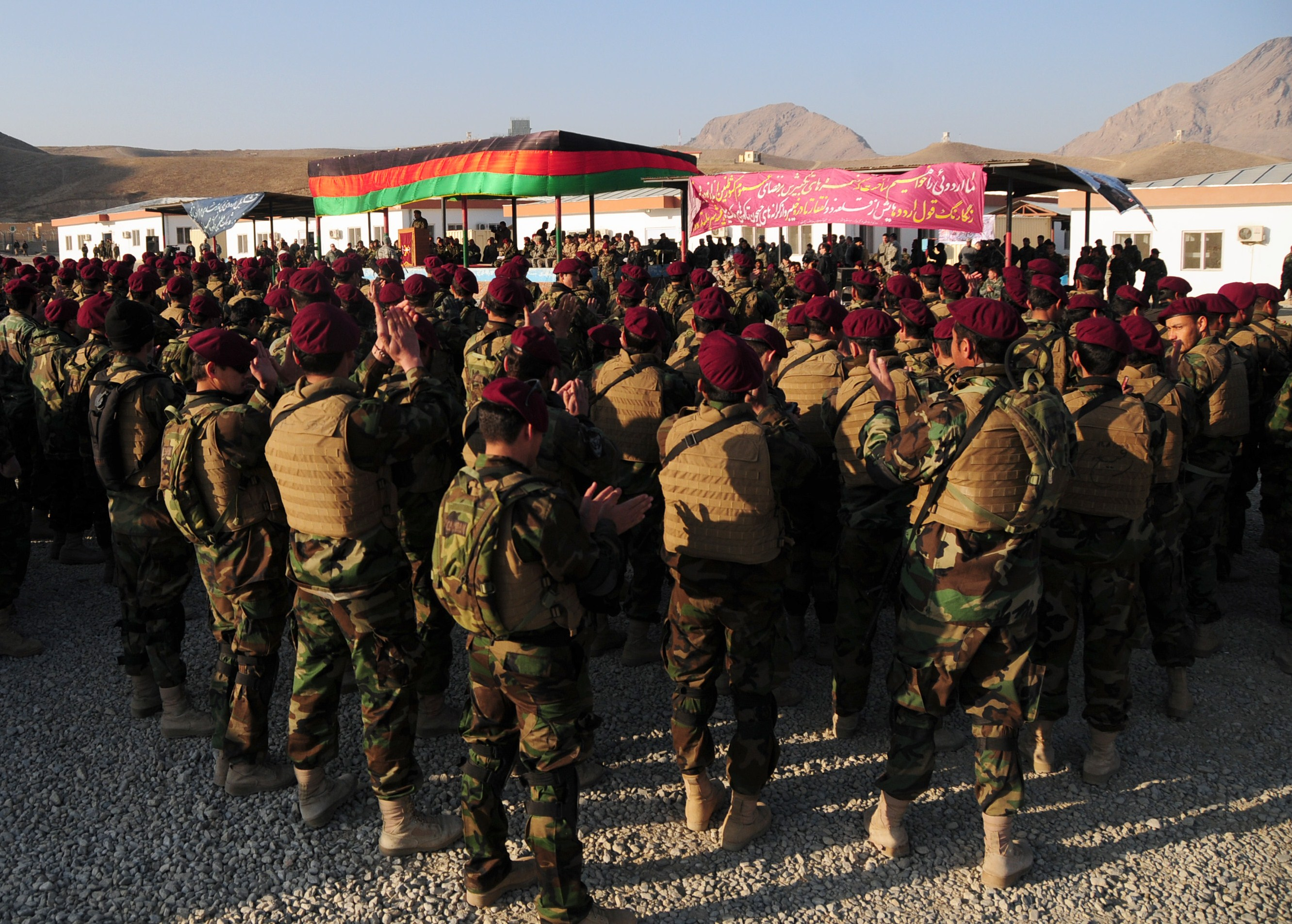 100121-F-1020B-061 Kabul - A group of more than 920 Afghan National Army commandos attend their graduation ceremony at Camp Morehead Jan. 21, 2010. Commando training is 12-weeks long and is modeled after U.S. Army Ranger training. (U.S. Air Force photo by Staff Sgt. Sarah Brown/RELEASED)